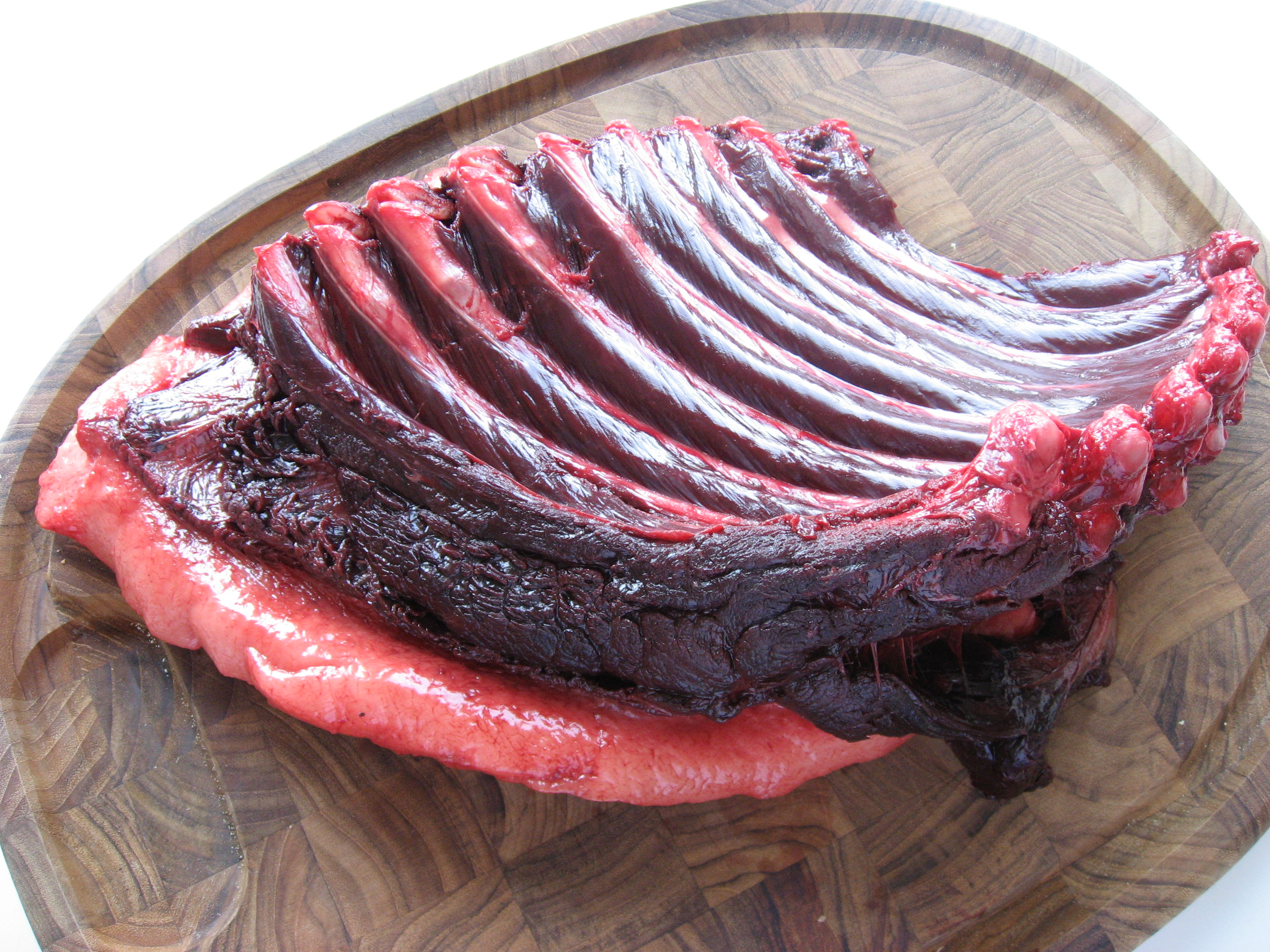 Piece of meat from young Harp Seal (Phoca groenlandica) bought in Upernavik, Greenland. The meat can be used to make, e.g., traditional seal soup.)